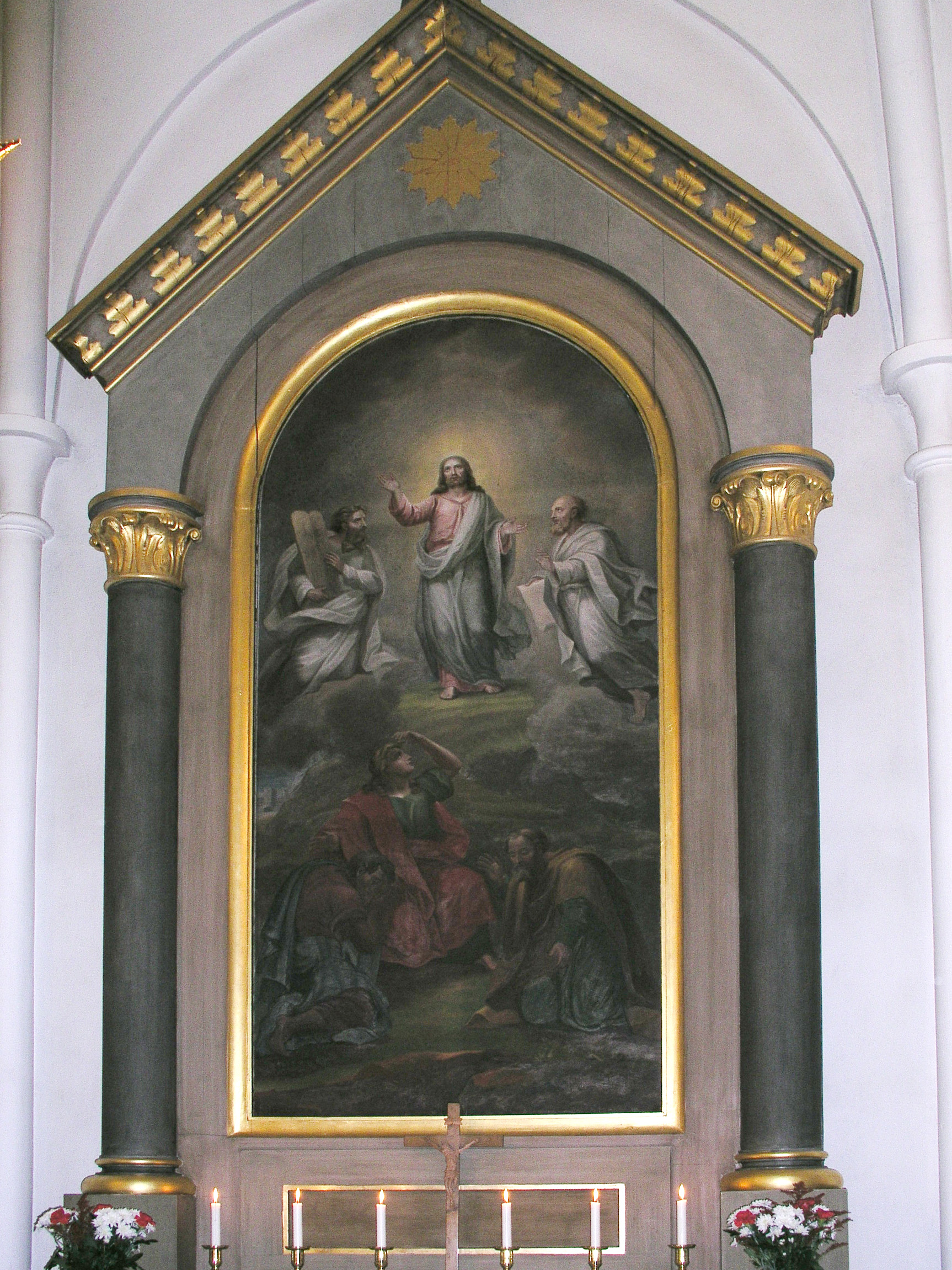 Sjögesta church. Altar piece.